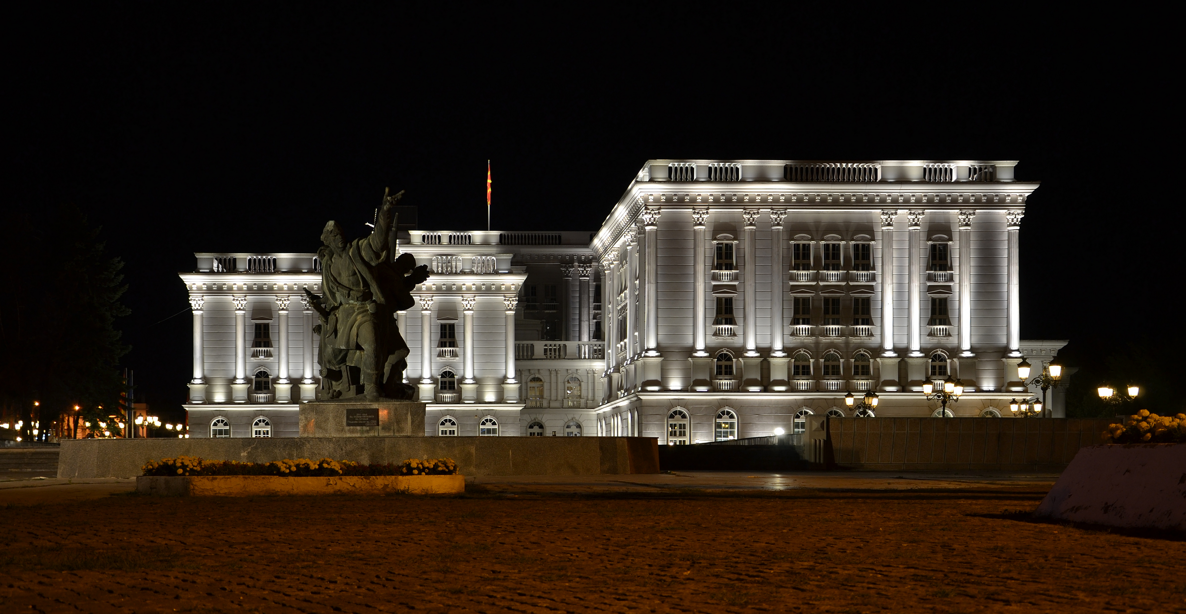 Government Headquarters in Skopje (Macedonia) by night